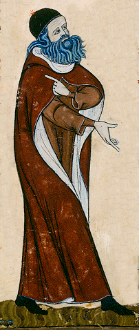 Cropped and cleared version of